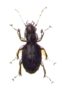 Synuchus vivalis, from Calwer's Käferbuch, Table 6, Picture 22. Taxonomy was updated to 2008, using mostly the sites Fauna Europaea and BioLib. Please contact Sarefo if the determination is wrong!